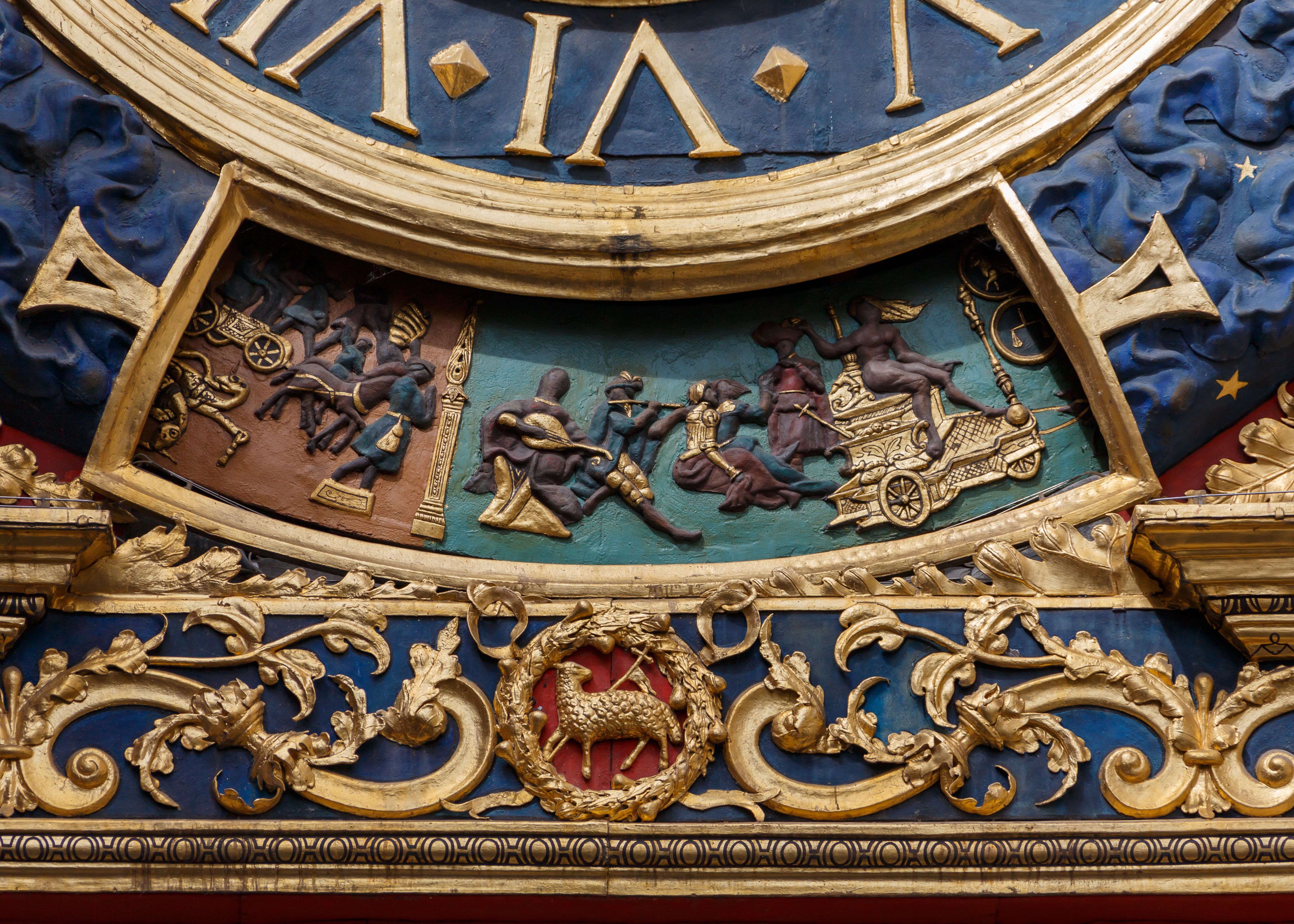 Rouen, France: Detail of Gros Horloge in Rouen